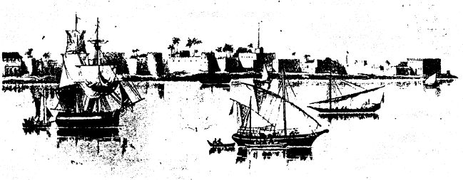 Harbour of Zanzibar